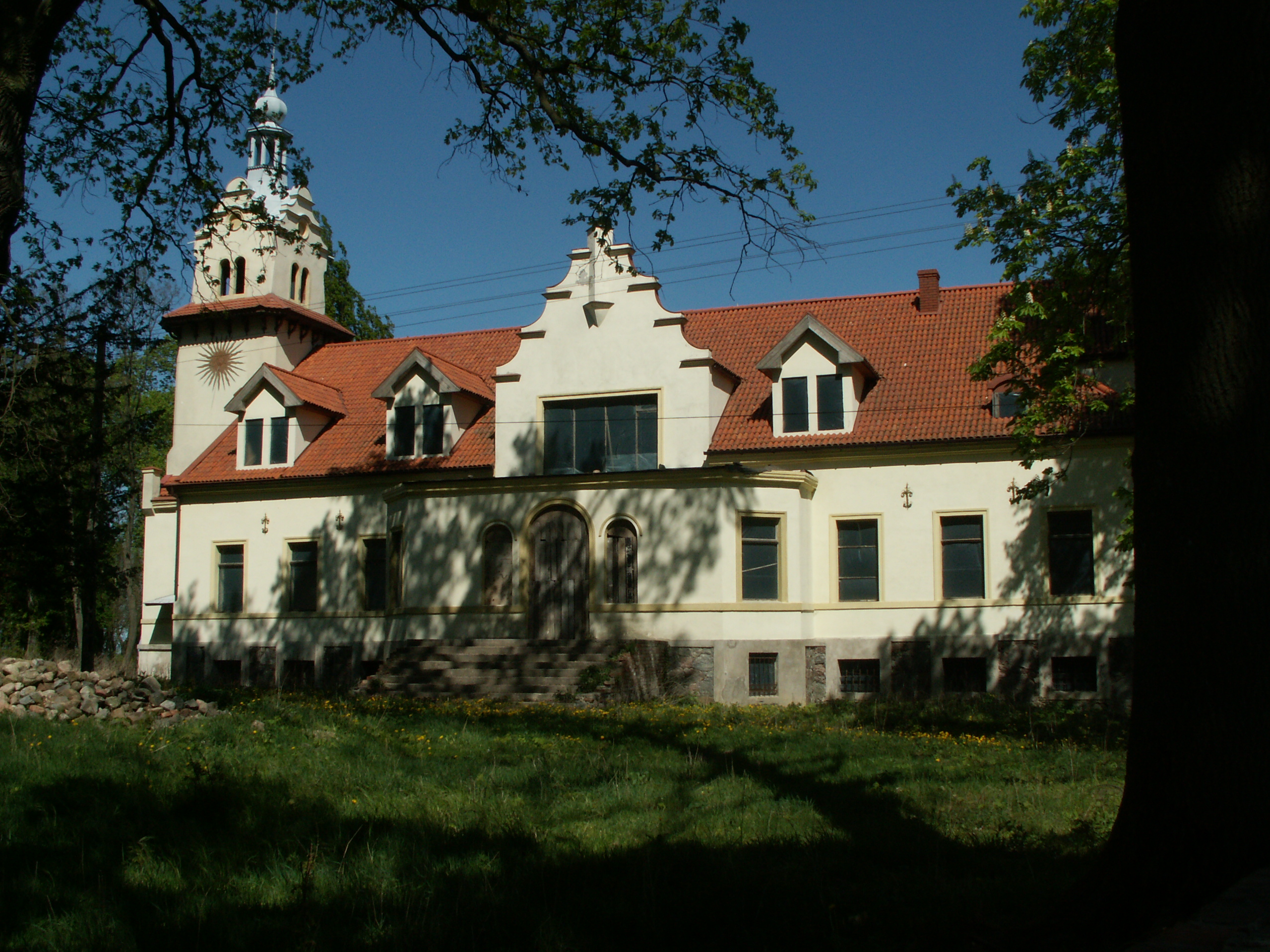 reconstruction of ruined palace of the end of XIX century (1842) Laskowo district Przelewice